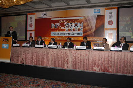 Infovision 2006